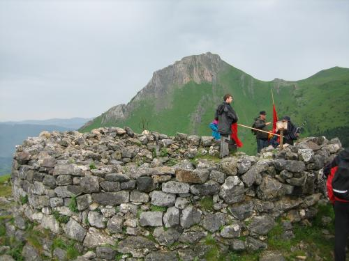 Top of mount Ausa Gaztelu — mount Txindoki is in the background